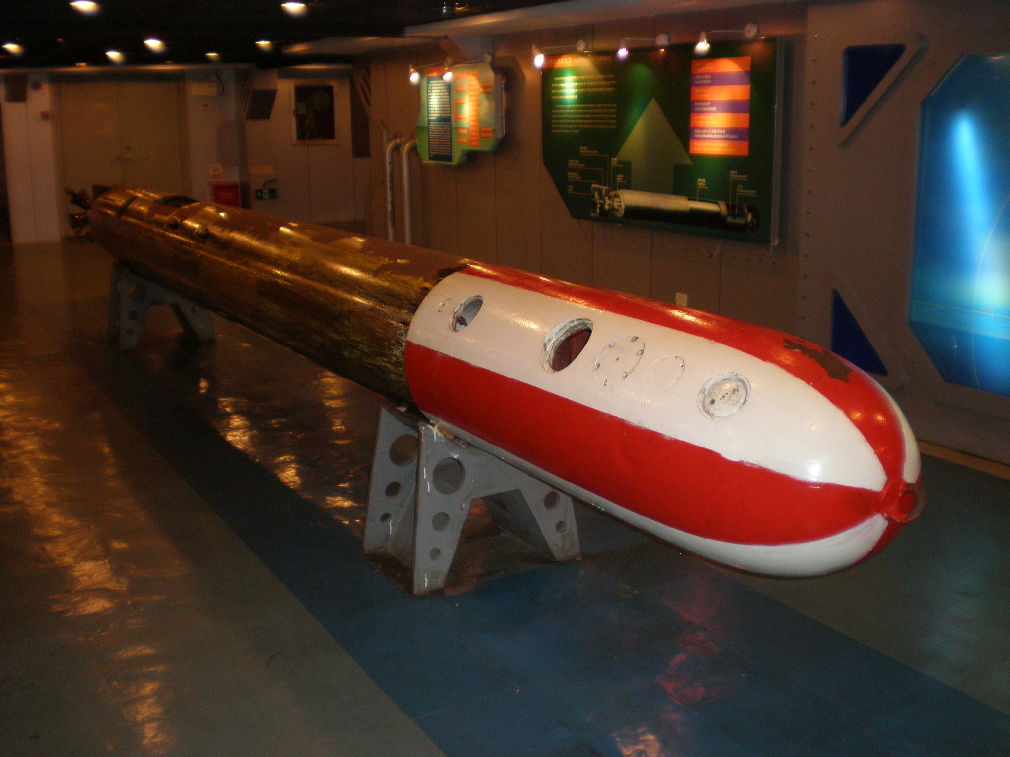 A 53-39 torpedo on display inside the former Soviet aircraft carrier Minsk. The Minsk is the centerpiece of the Minsk World military theme park in Shenzhen, China.